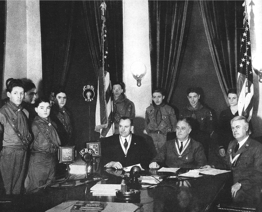 Seated, left to right: Walter W. Head – President of the Boy Scouts of America, U.S. President Franklin D. Roosevelt, and Chief Scout Executive James E. West, in a radio address to the nation from the White House, on February 8, 1937, announcing the National Scout jamboree to be held in Washington, D.C., June 30–July 9, 1937.